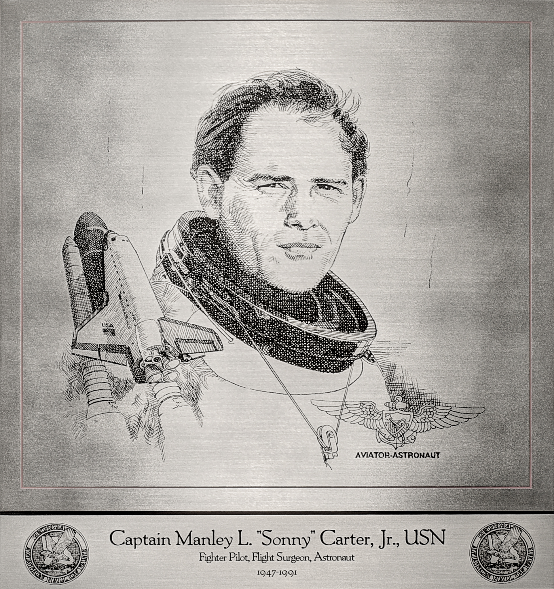 Sonny Carter exhibit at the Georgia Aviation Hall of Fame; located at the Museum of Aviation, Robins Air Force Base